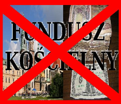 Not for the Fund of Holy Church